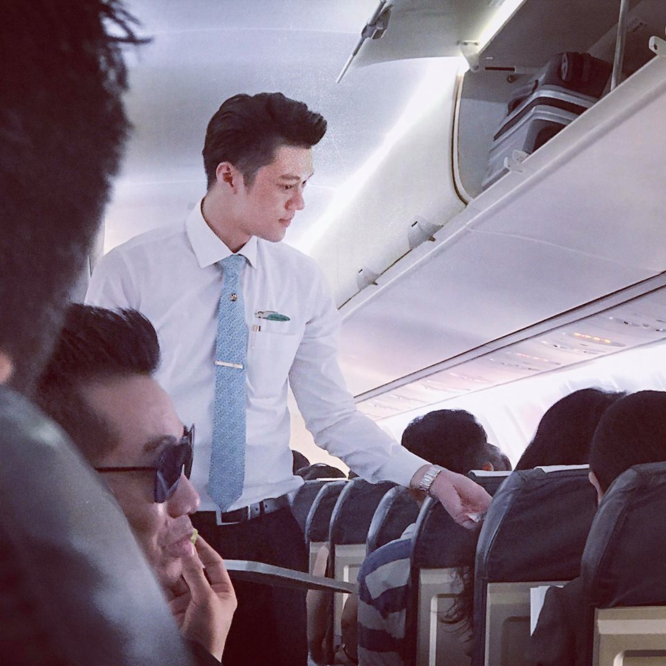 Tiếp viên Vietnam Airlines